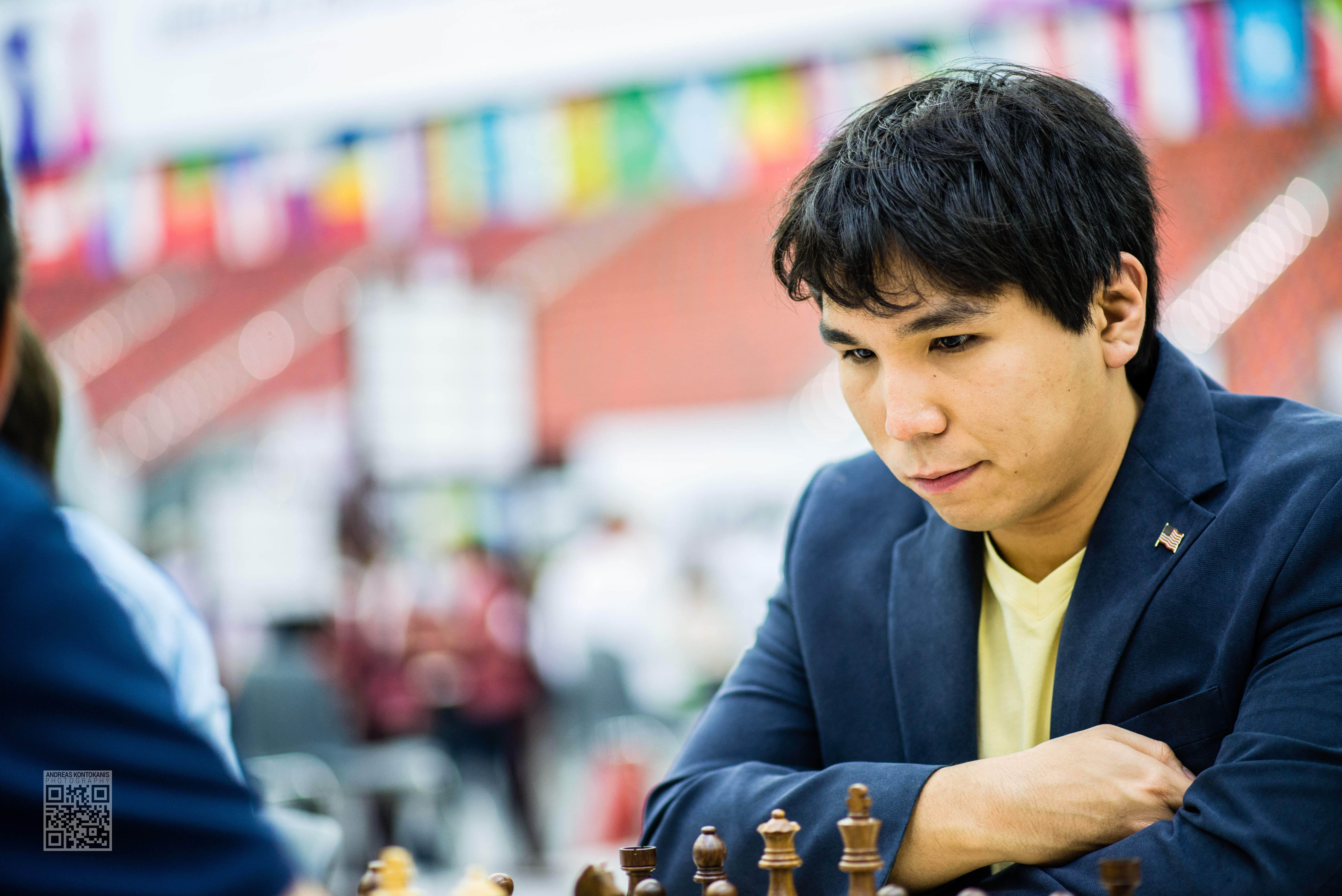 So Wesley